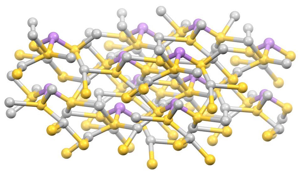 Packing diagram for proustite.